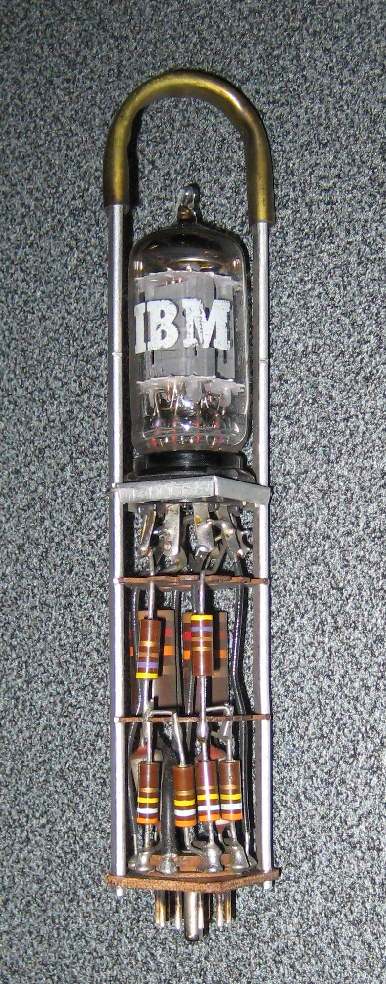 IBM vacuum tube module in the museum "Haus zur Geschichte der IBM Datenverarbeitung" in Sindelfingen, Germany